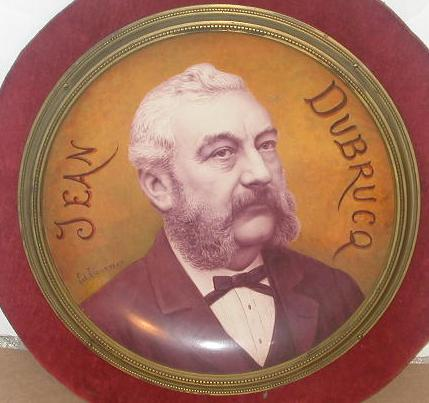 Jean Dubrucq, enamel on pottery by Edouard Tourteau.